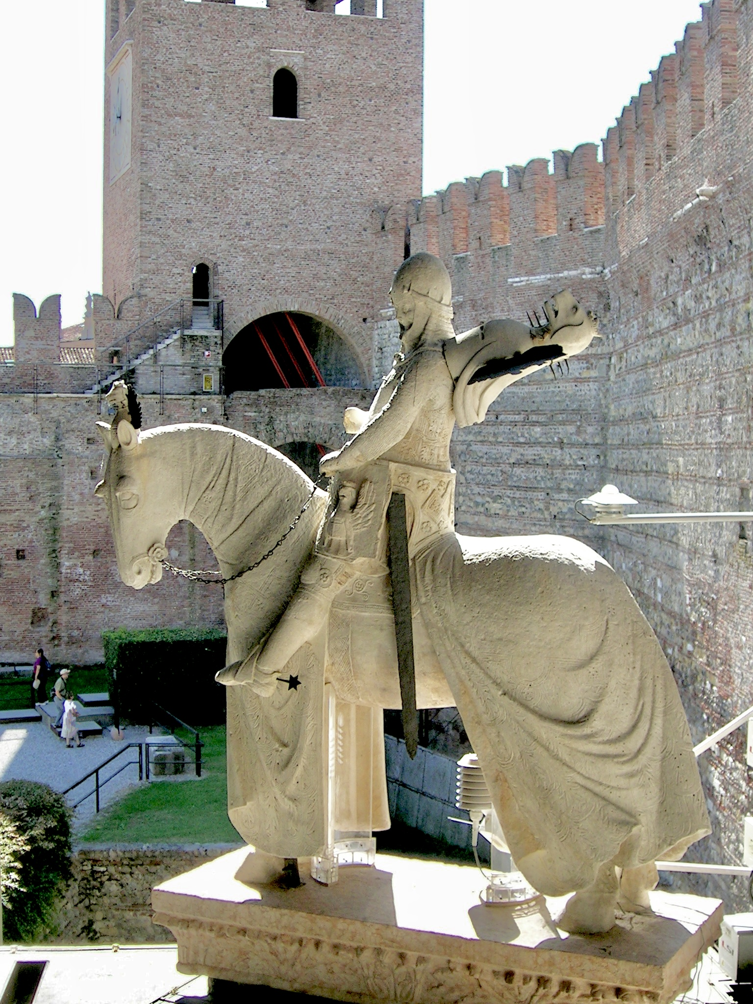 Cangrande I - Francesco della Scalla